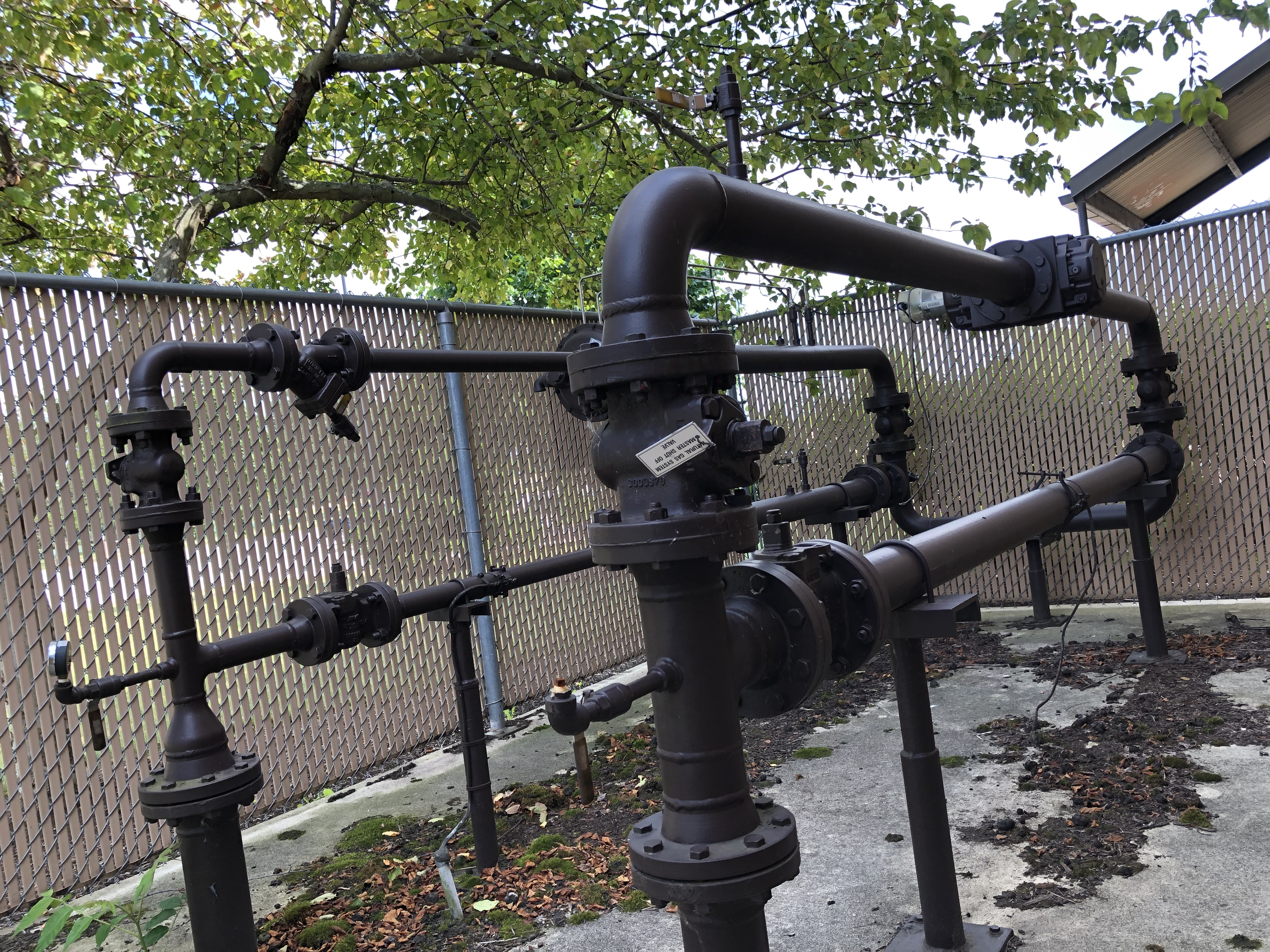 A Natural Gas Pipeline Station at Bowling Green State University.